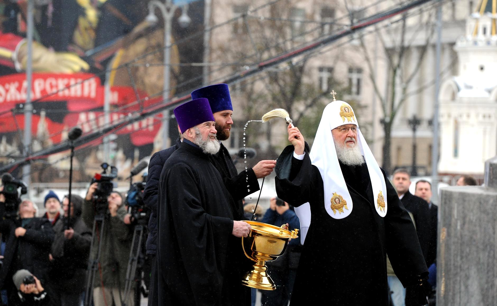 Patriarch Kirill on Unity Day 2016-11-04